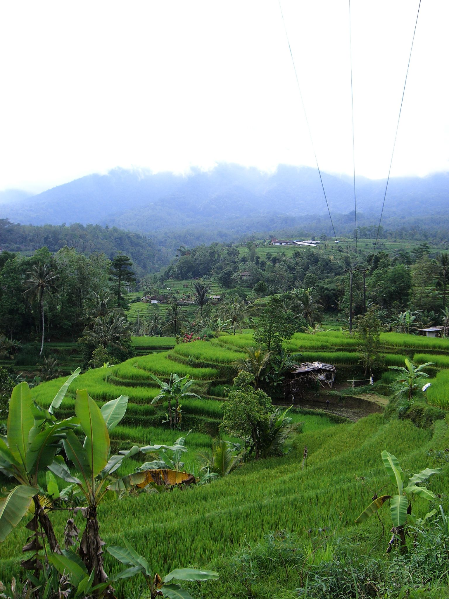 The rice terraces and valleys of Jati Luwih, Bedugul, Central Bali.